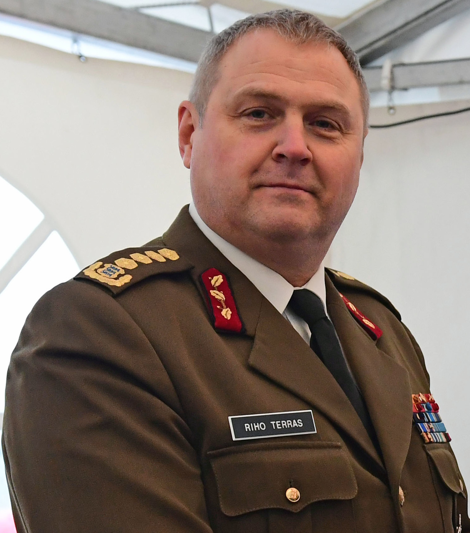 170223-N-VK873-317 TALLINN, Estonia (Feb. 23, 2017) Capt. Dan Gillen, commanding officer of the guided-missile cruiser USS Hué City (CG 66), right, exchanges a plaque with Lt. Gen. Riho Terras, commander of Estonia Defence Forces, during a reception on the flight deck aboard the ship. Hué City is in Tallinn, Estonia for a scheduled port visit to enhance U.S.-Estonia relations as the two nations work together for a stable, secure and prosperous Baltic region. (U.S. Navy photo by Mass Communication Specialist 2nd Class Kayla Cosby/Released)